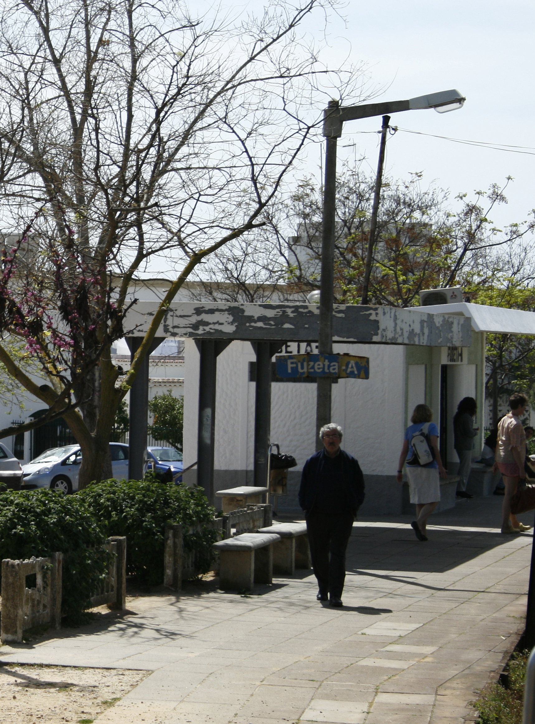 Fuseta-A Halt, part of the Algarve Line, in Southern Portugal.